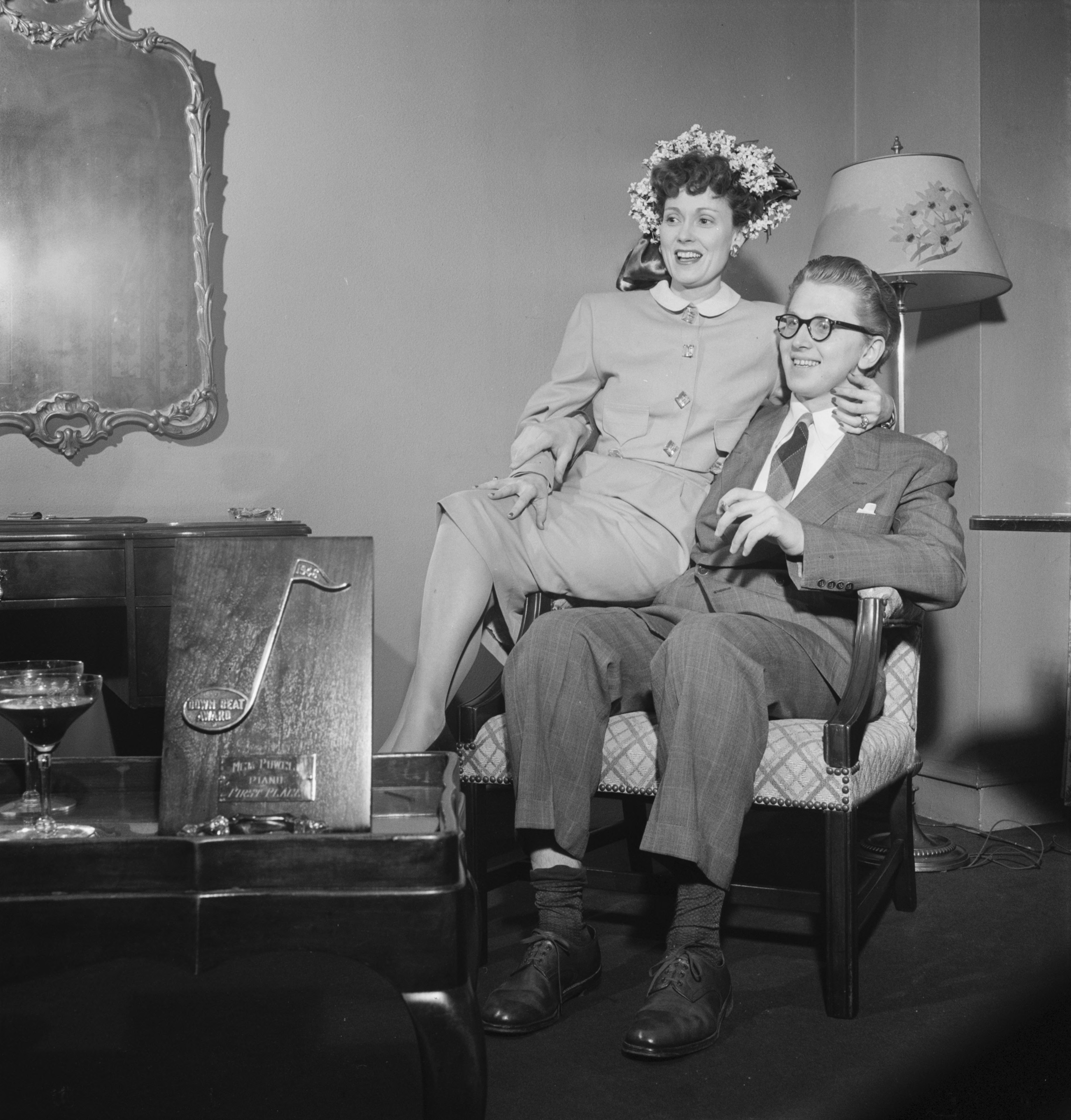 Actress Martha Scott and husband, Jazz composer/performer Mel Powell at their home in Connecticut, 1947. Powell's award from Downbeat magazine is visible on the table.